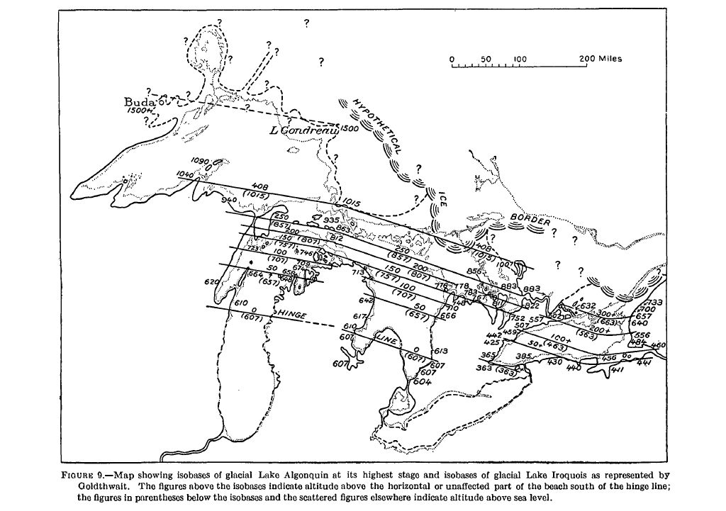 Fig 9 Map showing isobases of glacial Lake Algonquin